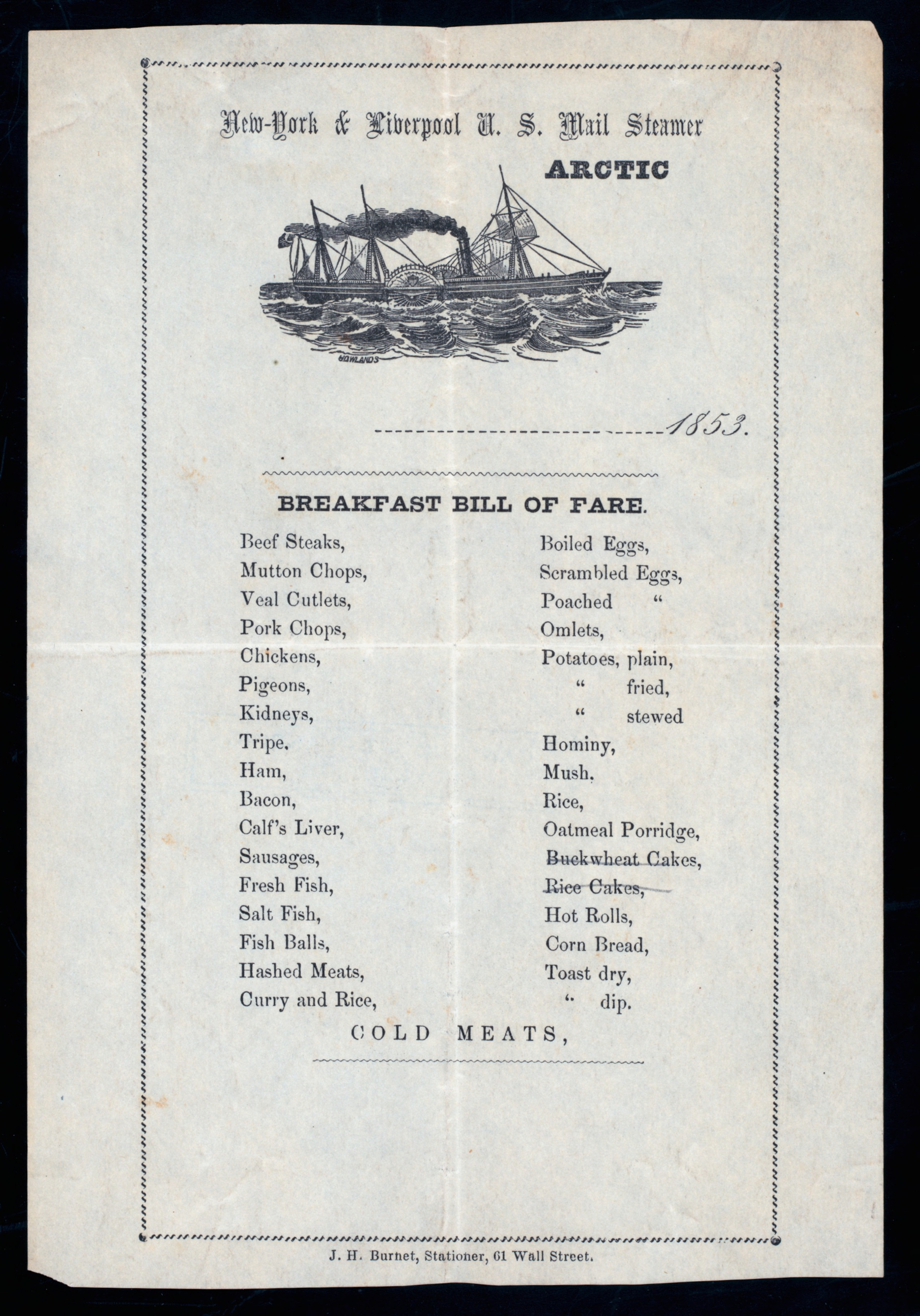 BREAKFAST [held by] NEW YORK & LIVERPOOL U.S. MAIL STEAMER ARCTIC [at] (SS)